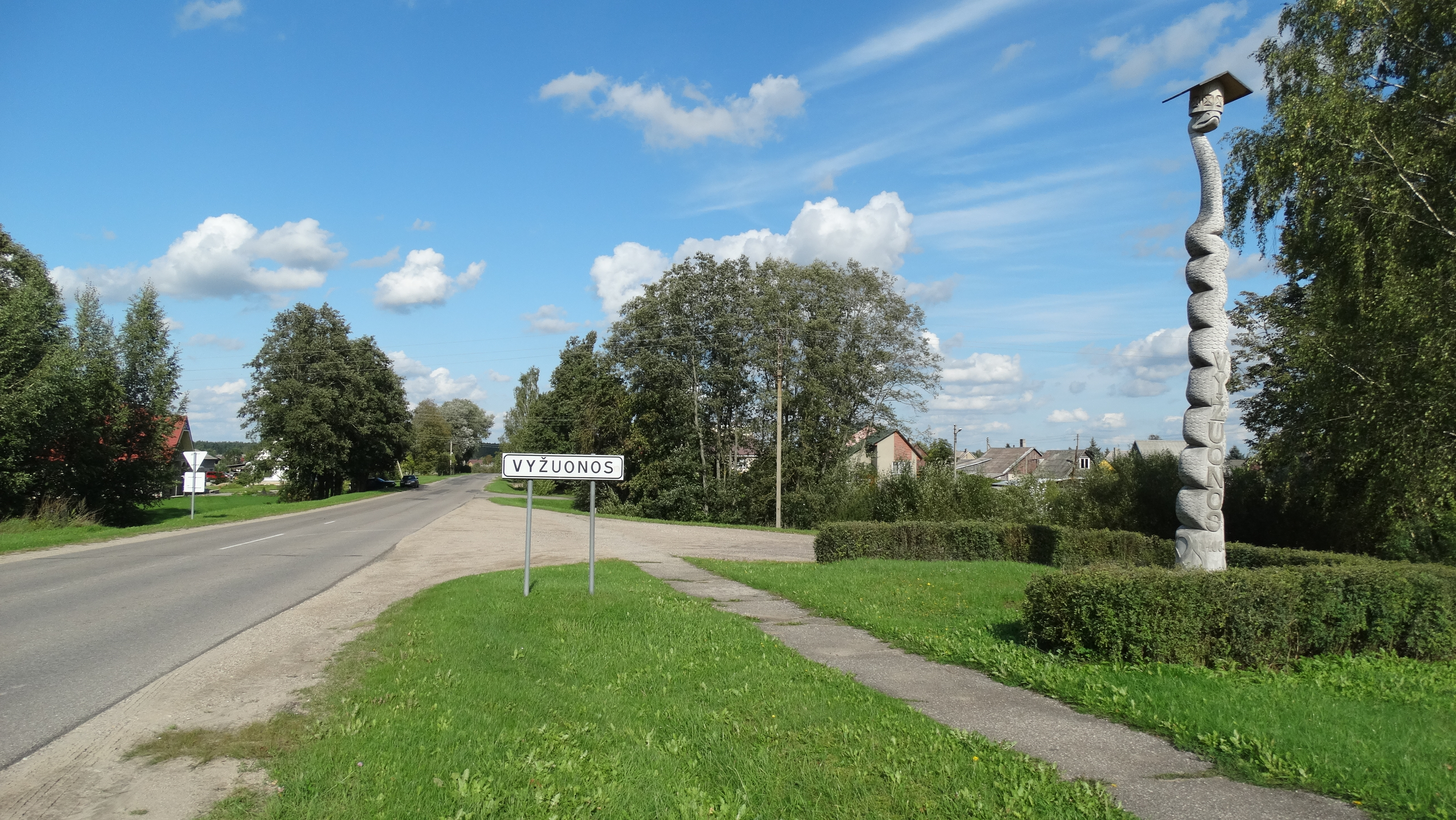 Vyžuonos, Utena district, Lithuania